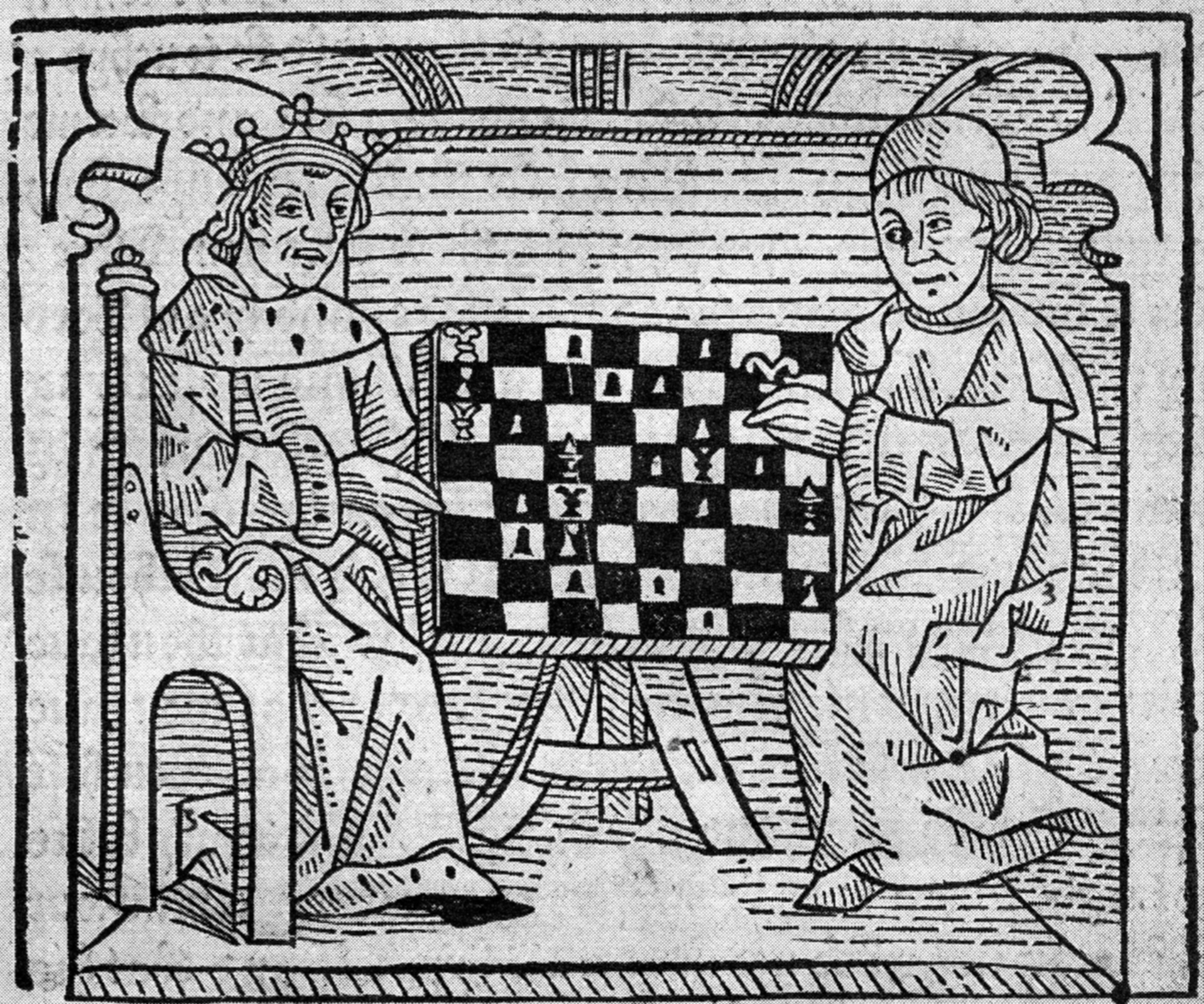 Chess: woodcut illustration